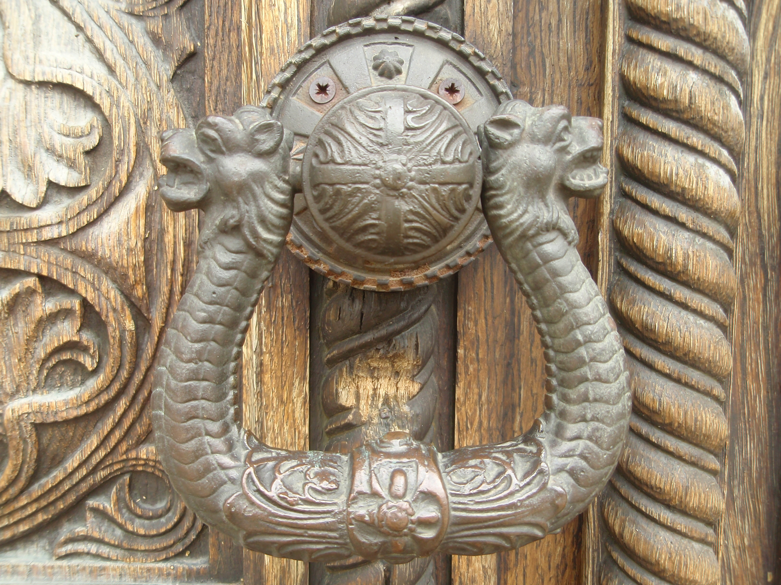 Temple-Monument "Alexander Nevski" Patriarchal Cathedral Church - gates - zoomorph decoration